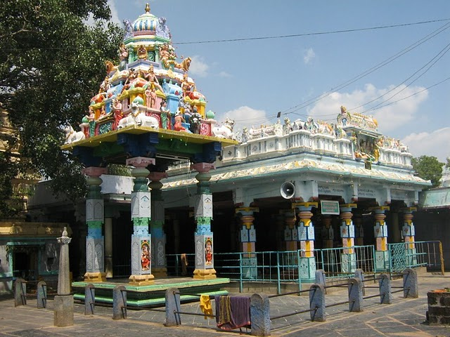 Inside Veerabrahmendra swamy temple at kandimallayApalle